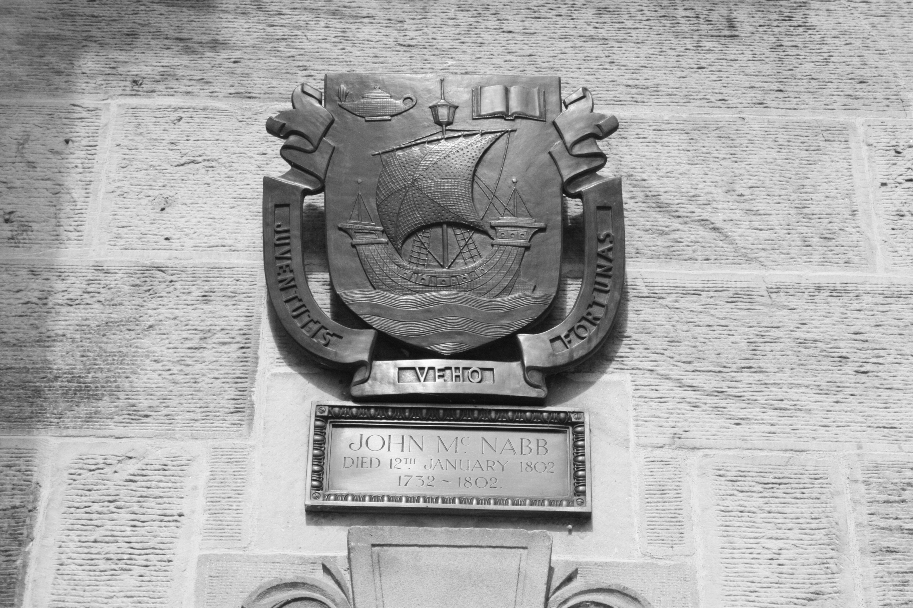 The ashes of John McNabb, Dollar Academy